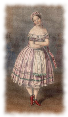 Marie Guy-Stephan dancing "La Cracovienne" in "Une Soirée de Carnaval", London, England.